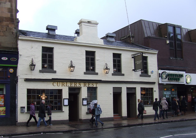 The Curlers Rest. A pub on Byres Road , next to Hillhead subway station. Near to Partick, Glasgow, Scotland.